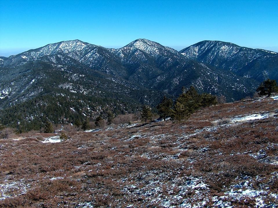 The eastern Tehachapis: Tehachapi Mountain, Double Mountain, Covington Mountain